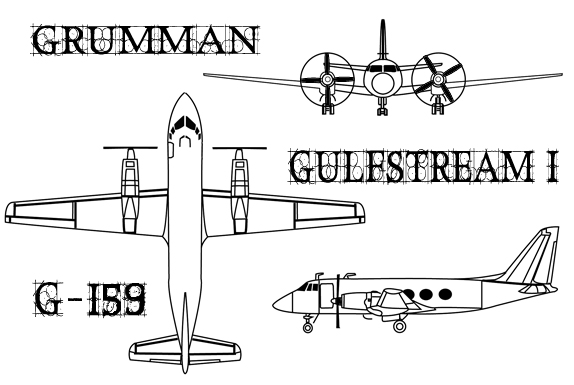 This is a Grumman Gulfstream G-159's drawing, made by me with graphic programs. Low quality